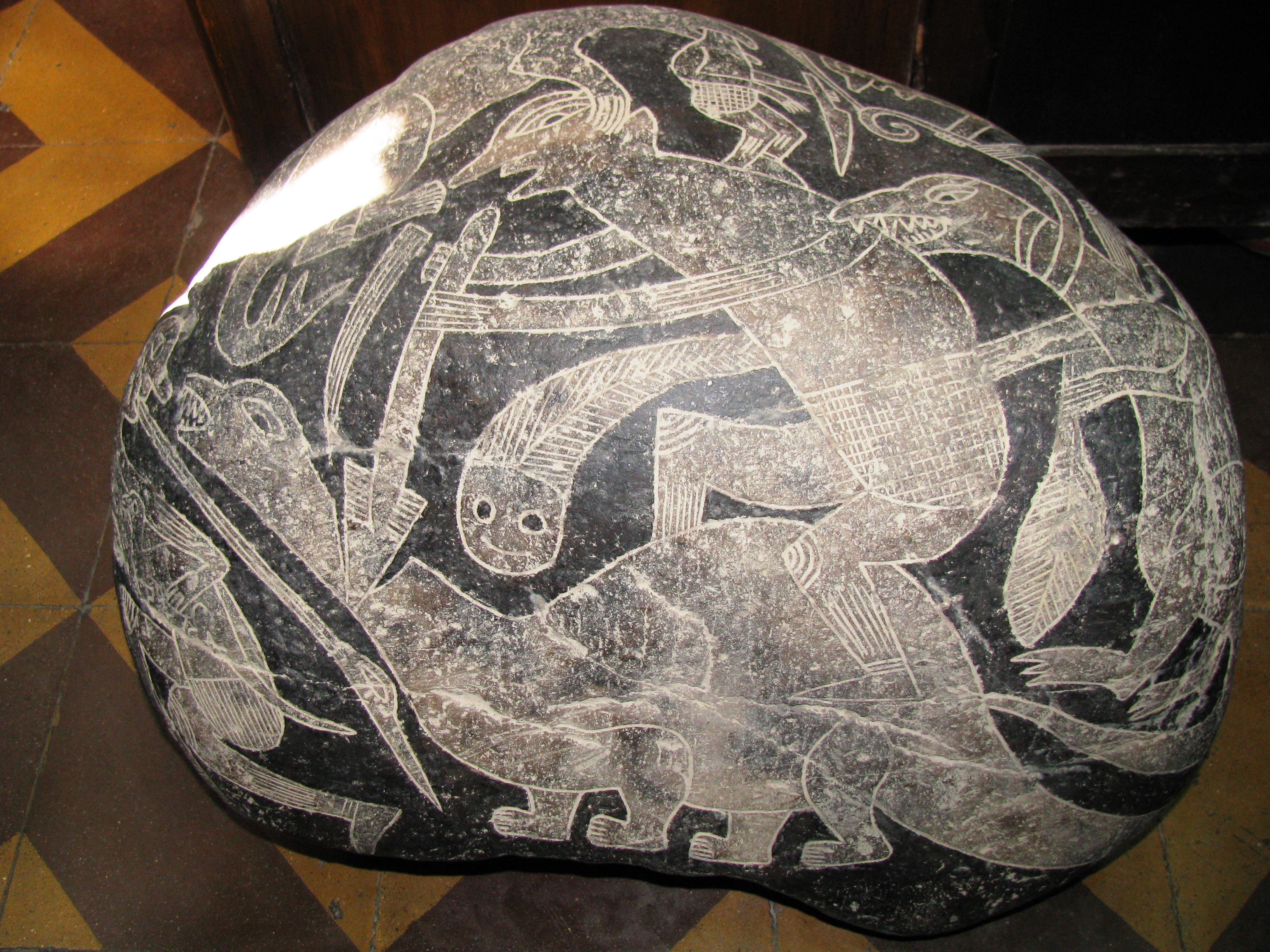 Ica stones